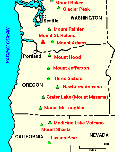 Major Cascade Range Volcanoes: the Cascade Range is a volcanic chain stretching from northern California to British Columbia